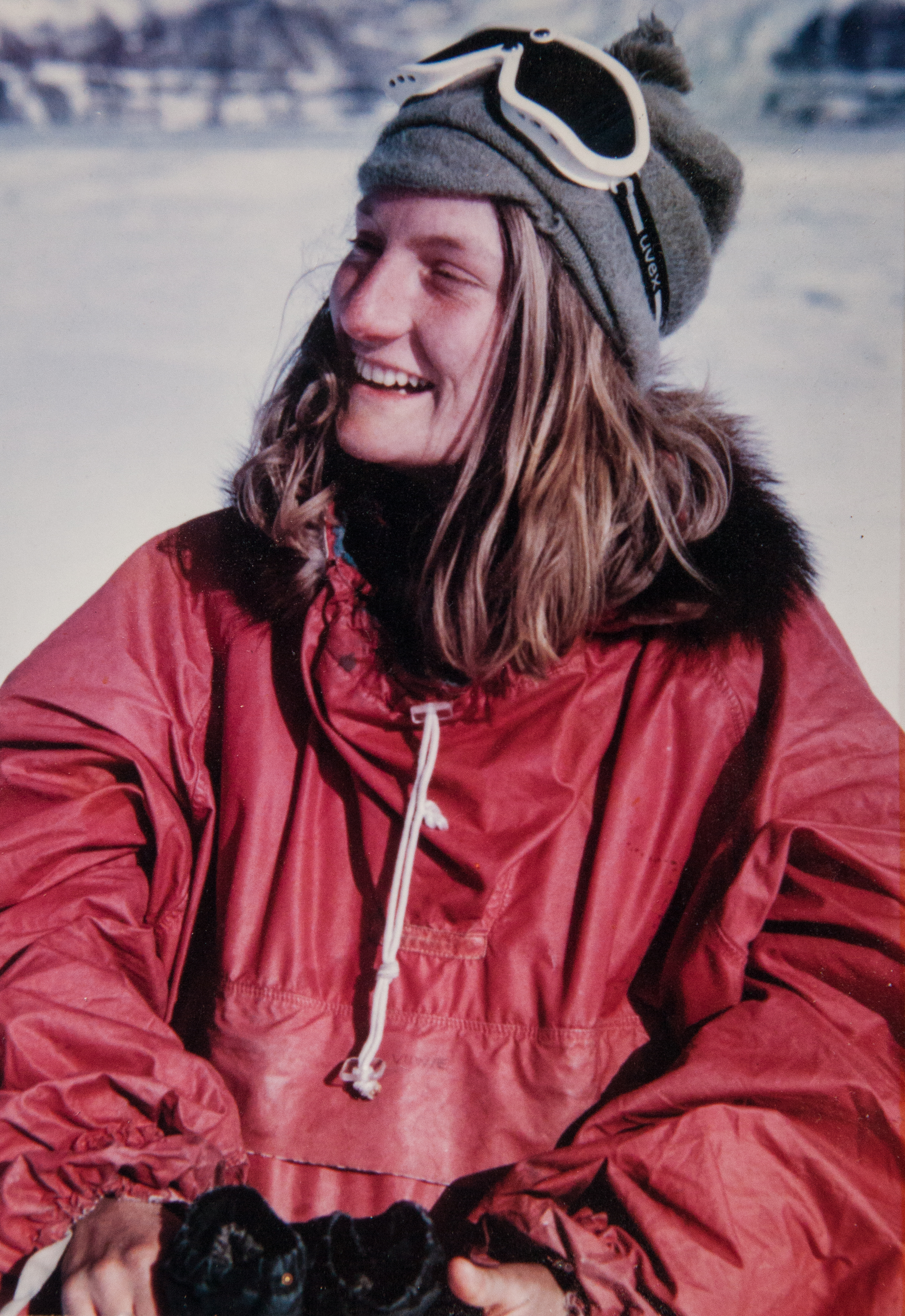 Rosemary Askin during her first field season, 1970, Skelton Névé, Southern Victoria Land, Antarctica.